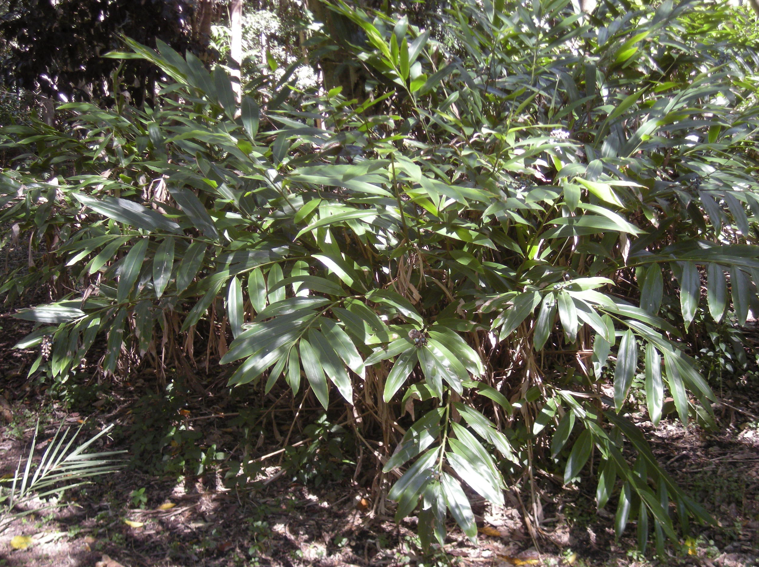 Alpinia caerulea fruit, Mount Archer National Park, Rockhampton